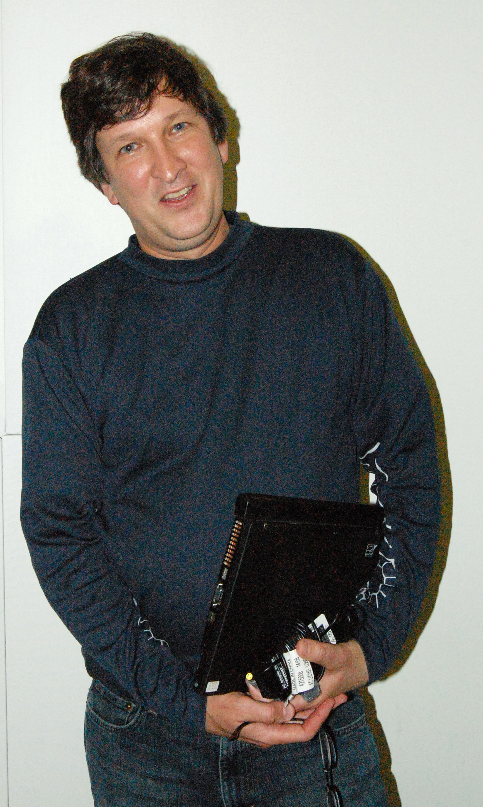 Larry McVoy on SVLUG meeting